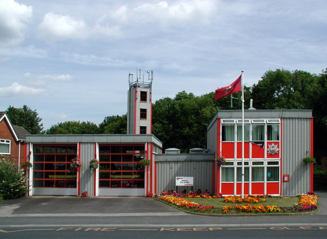 Fire Station, Hornsea, East Riding of Yorkshire, England.Hornsea's urban district council had a fire brigade by 1902 and in 1924 bought a former lifeboat house on Burton Road to replace the original station in Market Place. The East Riding County Council took charge of the Fire Brigade after World War II and a new station was opened at the current location on Southgate in 1965.